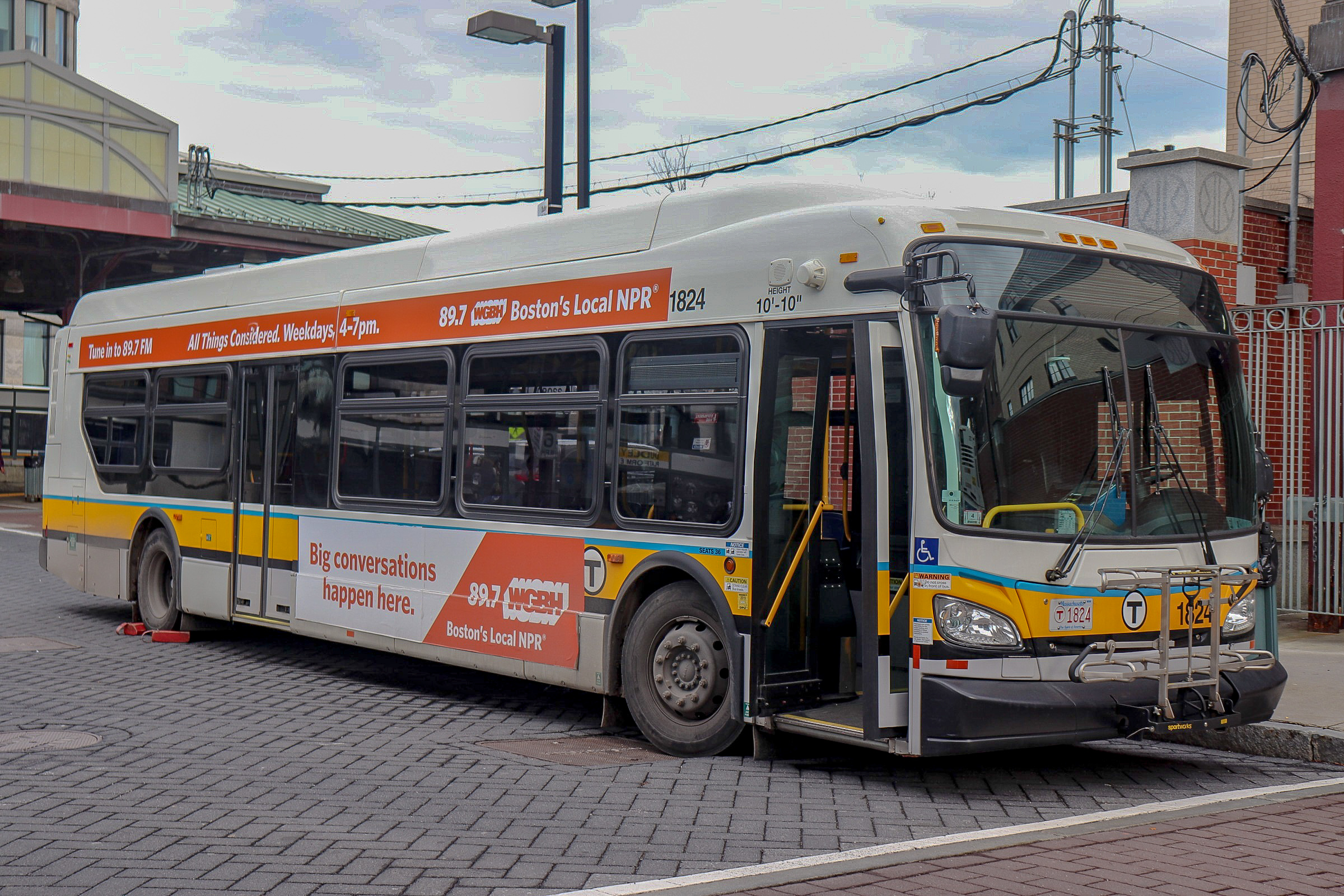 MBTA XDE40 #1824 at Dudley in December 2018